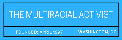 2016 revised logo for The Multiracial Activist publication and website.